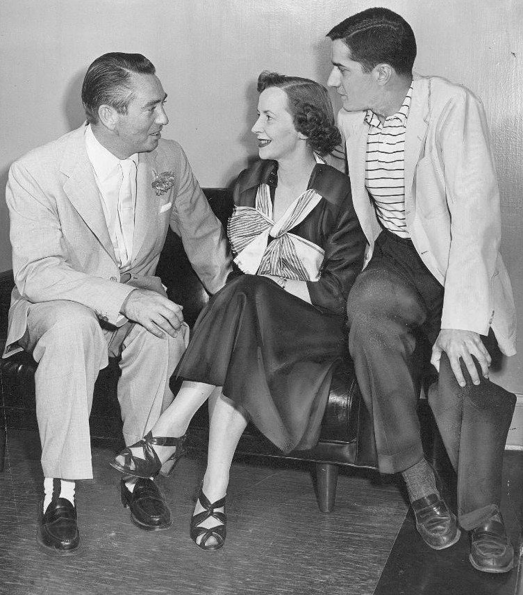 Publicity photo of Macdonald Carey, Bernardine Flynn, and Frank Pacelli. Flynn played Lona Drewer Corey in the early daytime drama Hawkins Falls, Population 6200; Pacelli was the director of the television program.